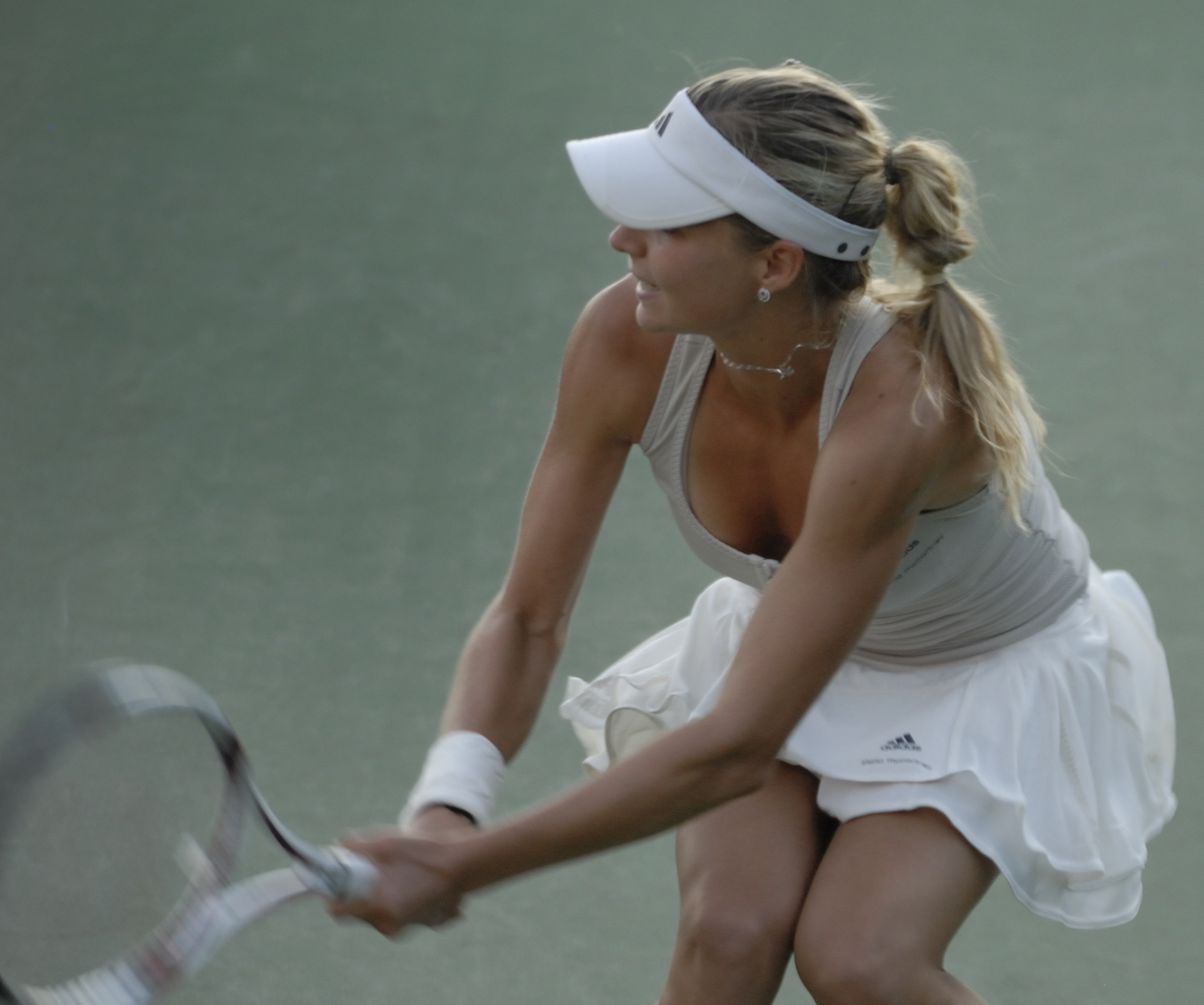 Maria Kirilenko